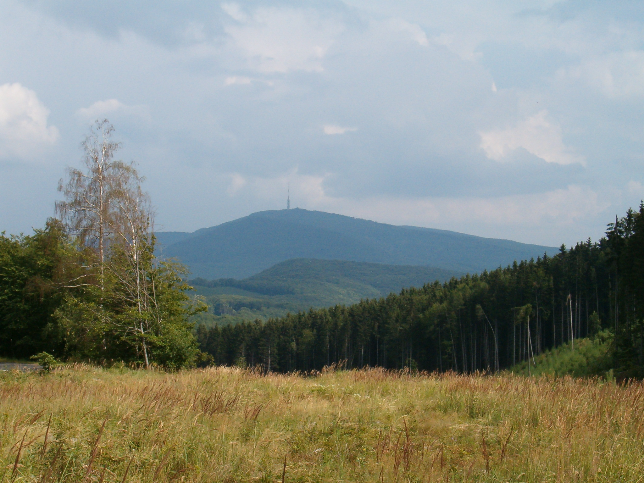 Kékes seen from the roadbend beneath Galya-tető